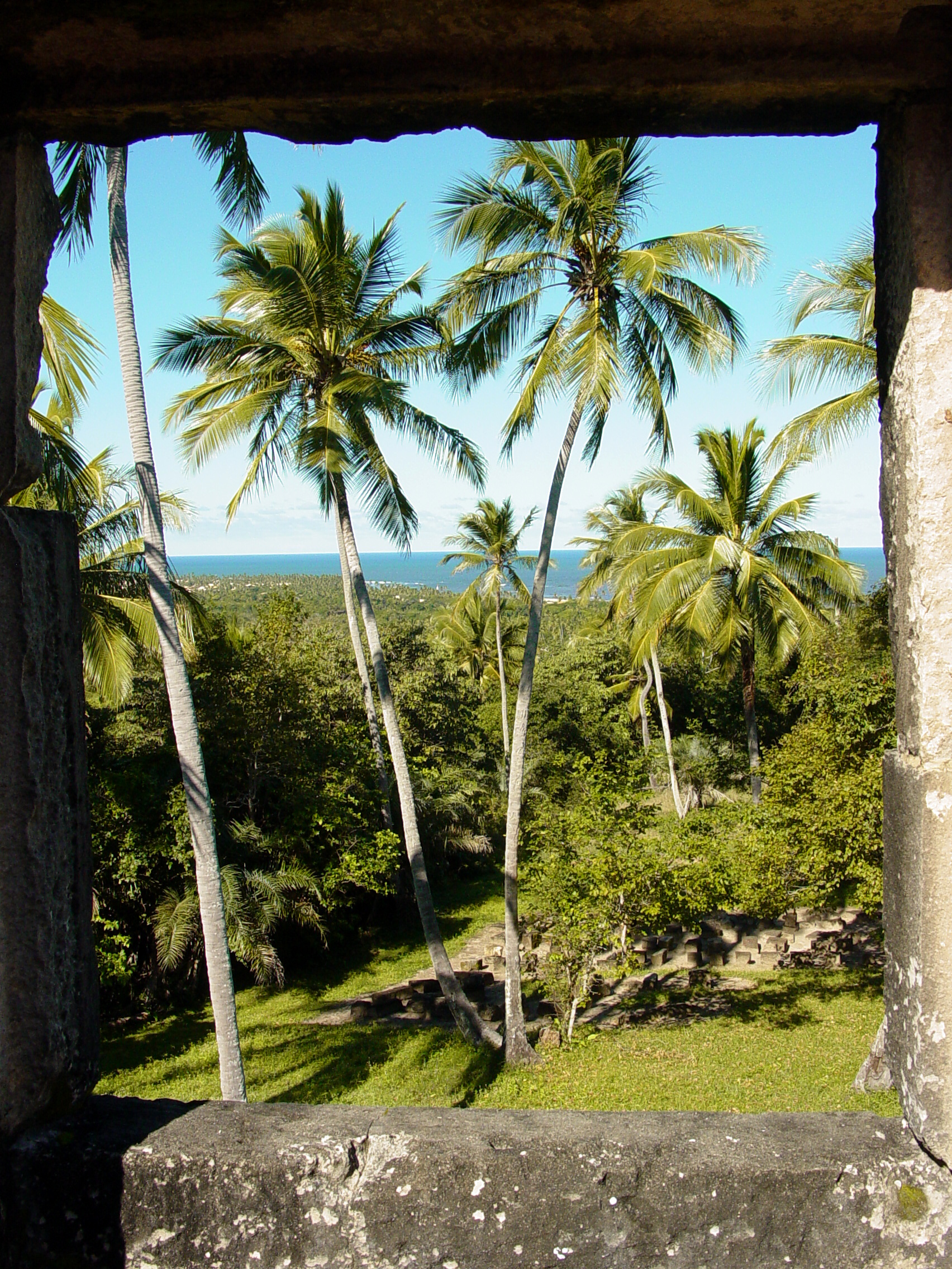 Looking from a castle window down to the sea at Castelo de Garcia d'Avila, near Praia do Forte, Bahia state, Brazil -- the only feudal castle in the Americas. July 2006.